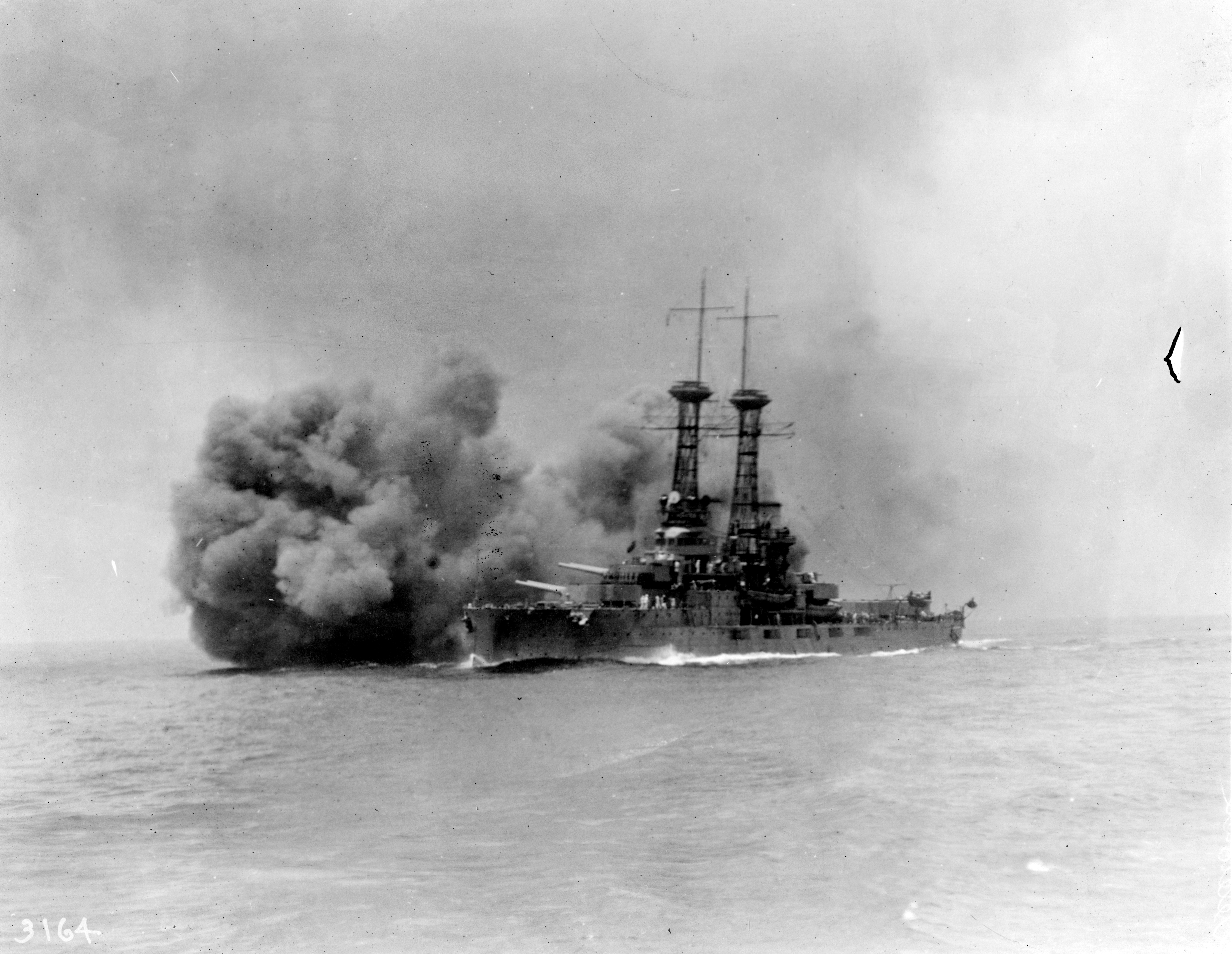 Firing her 12/45 main battery guns during battle practice, 26 June 1920. Photographed by A.E. Wells. U.S. Naval History and Heritage Command Photograph.